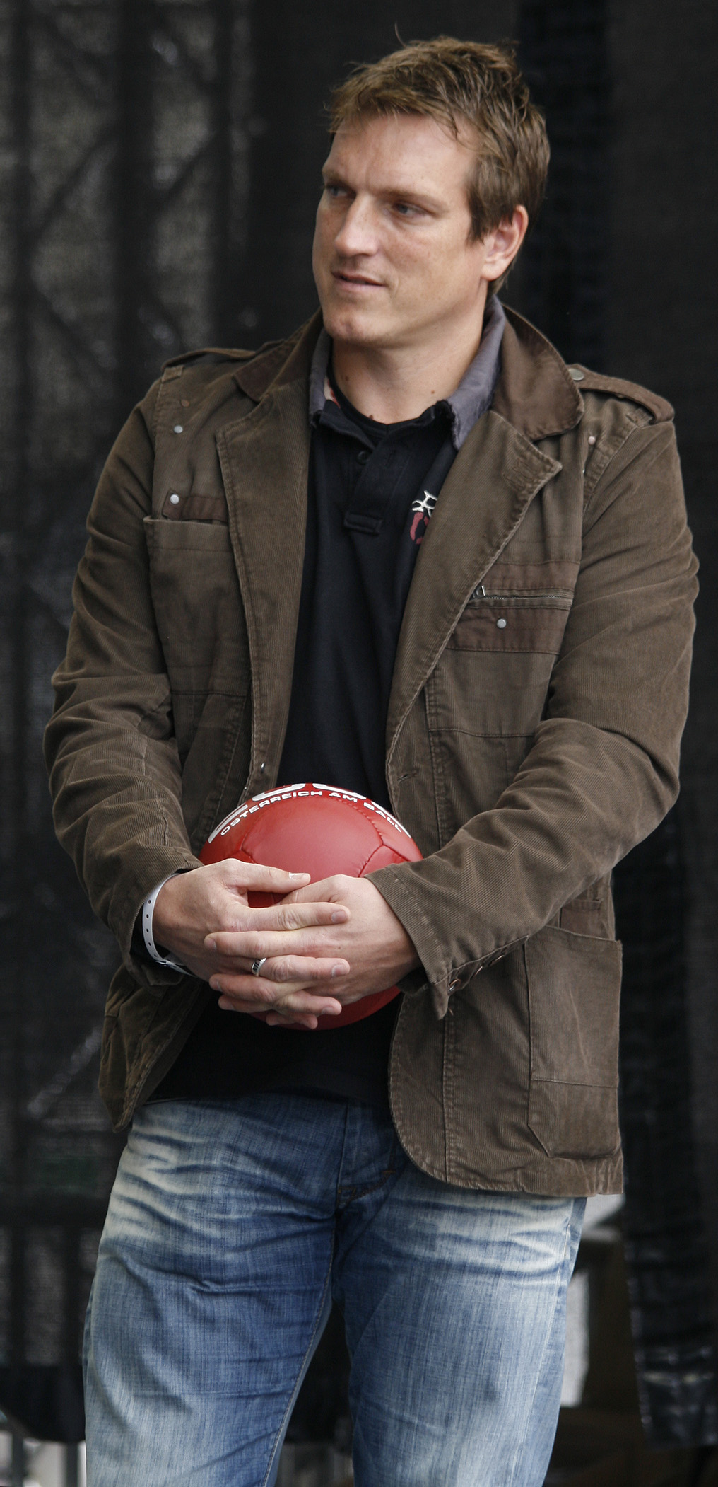 Austrian football player and trainer Andreas Herzog at the "Day of Sports" at the Heldenplatz in Vienna.